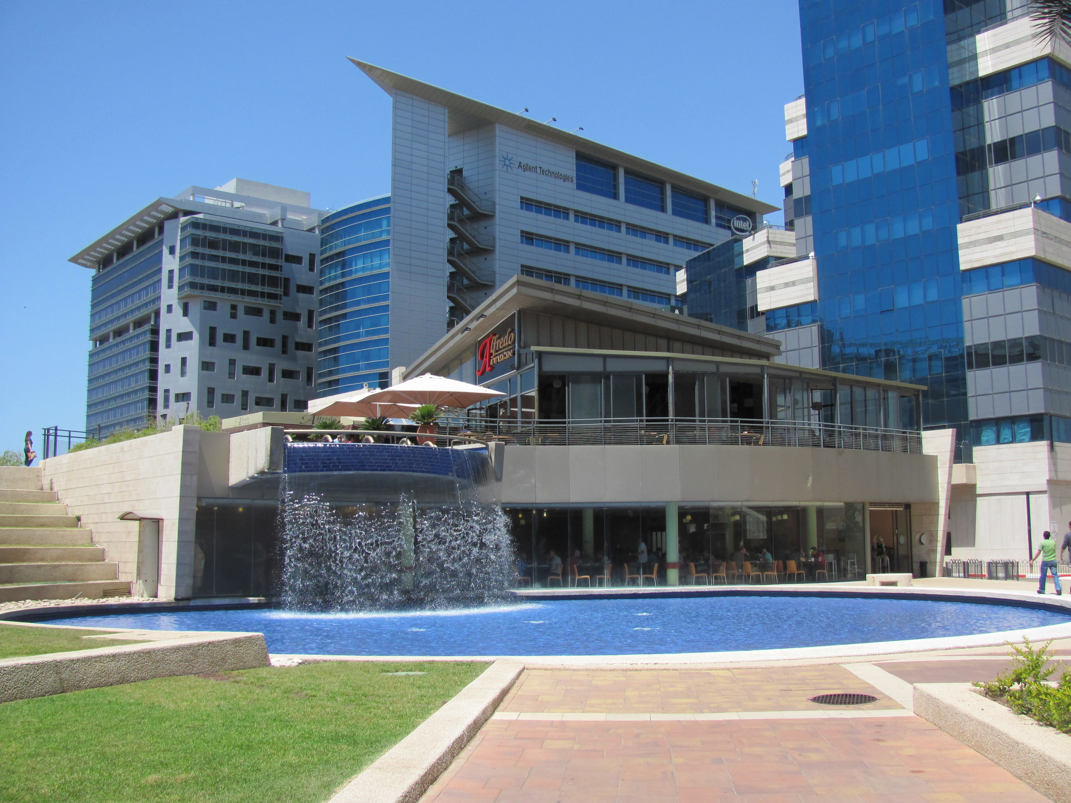 Part of Azorim High-Tech park in Kiryat Arie industrial area, Petah-Tikva, Israel.